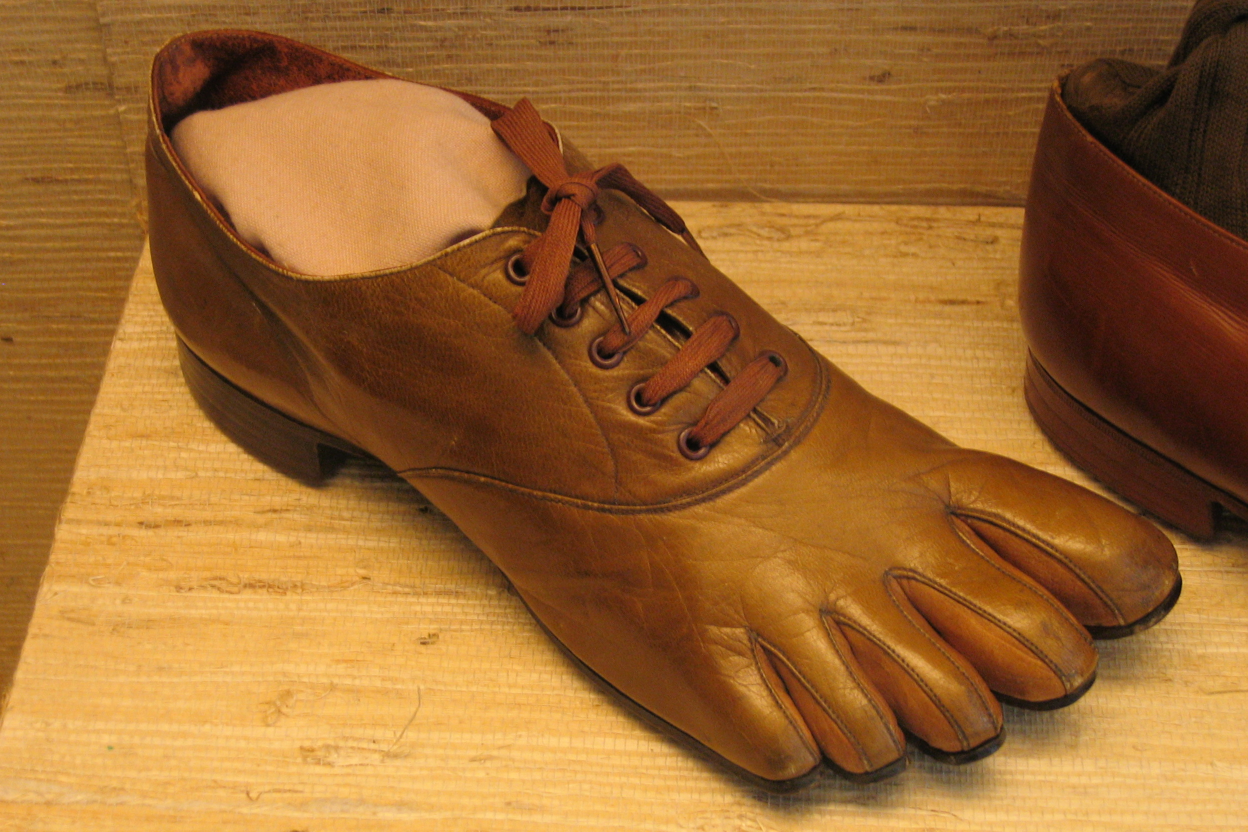 Single toe shoe at Deutsches Ledermuseum Offenbach, Germany. Tailor made shoe for Mr Mannesmann. Patented 1907.